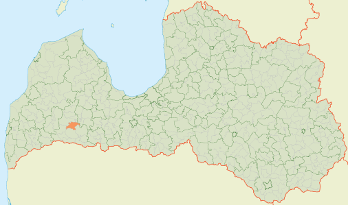 Location of Novadnieki Parish in Latvia